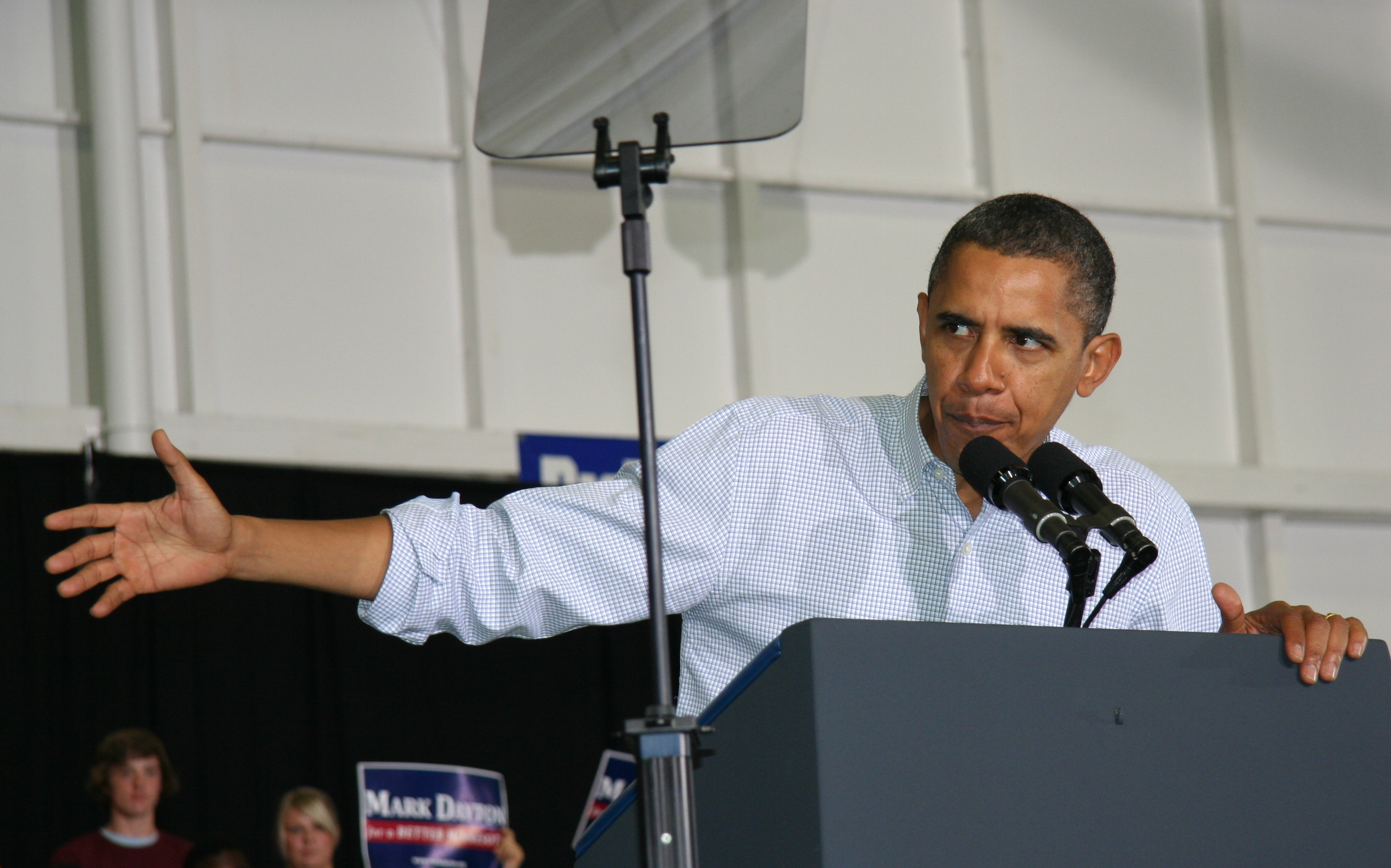 Barack Obama speaking at a rally at the University of Minnesota Field House in Minneapolis